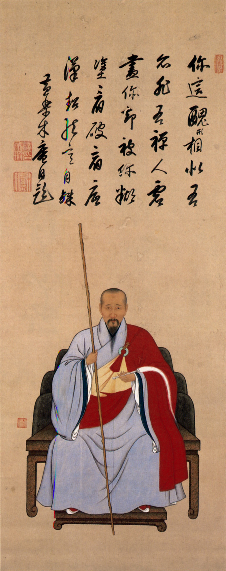 Portrait of Muan,Kita Chobei,Inscription by Muan,Triptych hanging scrolls,color on paper,Kobe City Museum